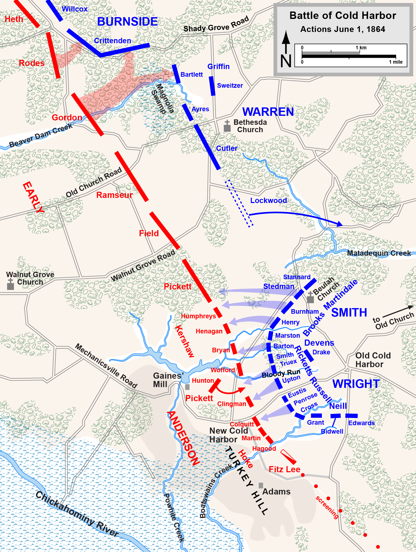 Map of the Battle of Cold Harbor of the American Civil War, drawn in Adobe Illustrator CS5 by Hal Jespersen. Graphic source file is available at